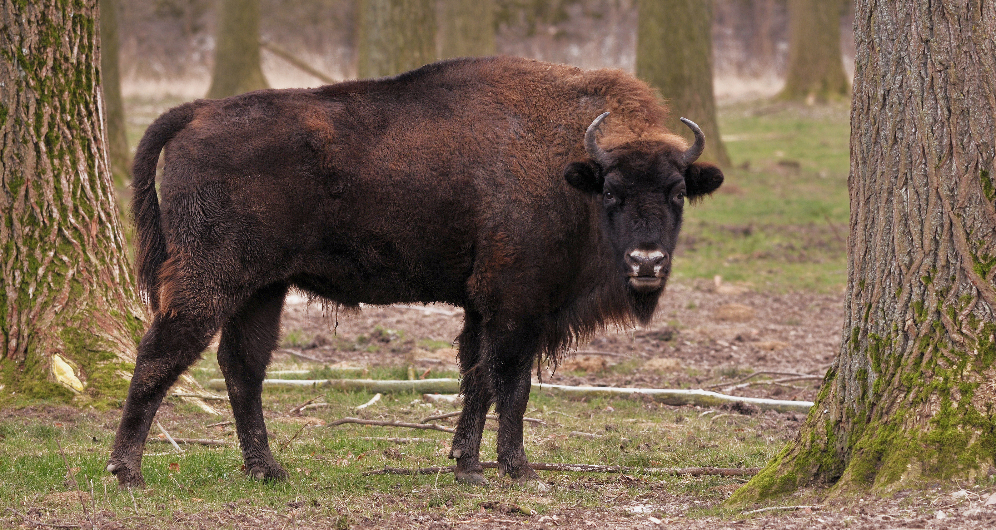 Young Bison bonasus bonasus in the Wisentgehege Springe game park near Springe, Hanover, Germany. The European bison or wisent is the heaviest of the surviving land animals in Europe, with males growing to around 1,000 kg (2,200 lb). European bison were hunted to extinction in the wild, but have since been reintroduced from captivity into several countries.